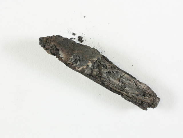 A section of an ancient Torah Scroll found in the Byzantine-era synagogue in Ein Gedi. It includes verses from the beginning of Leviticus.